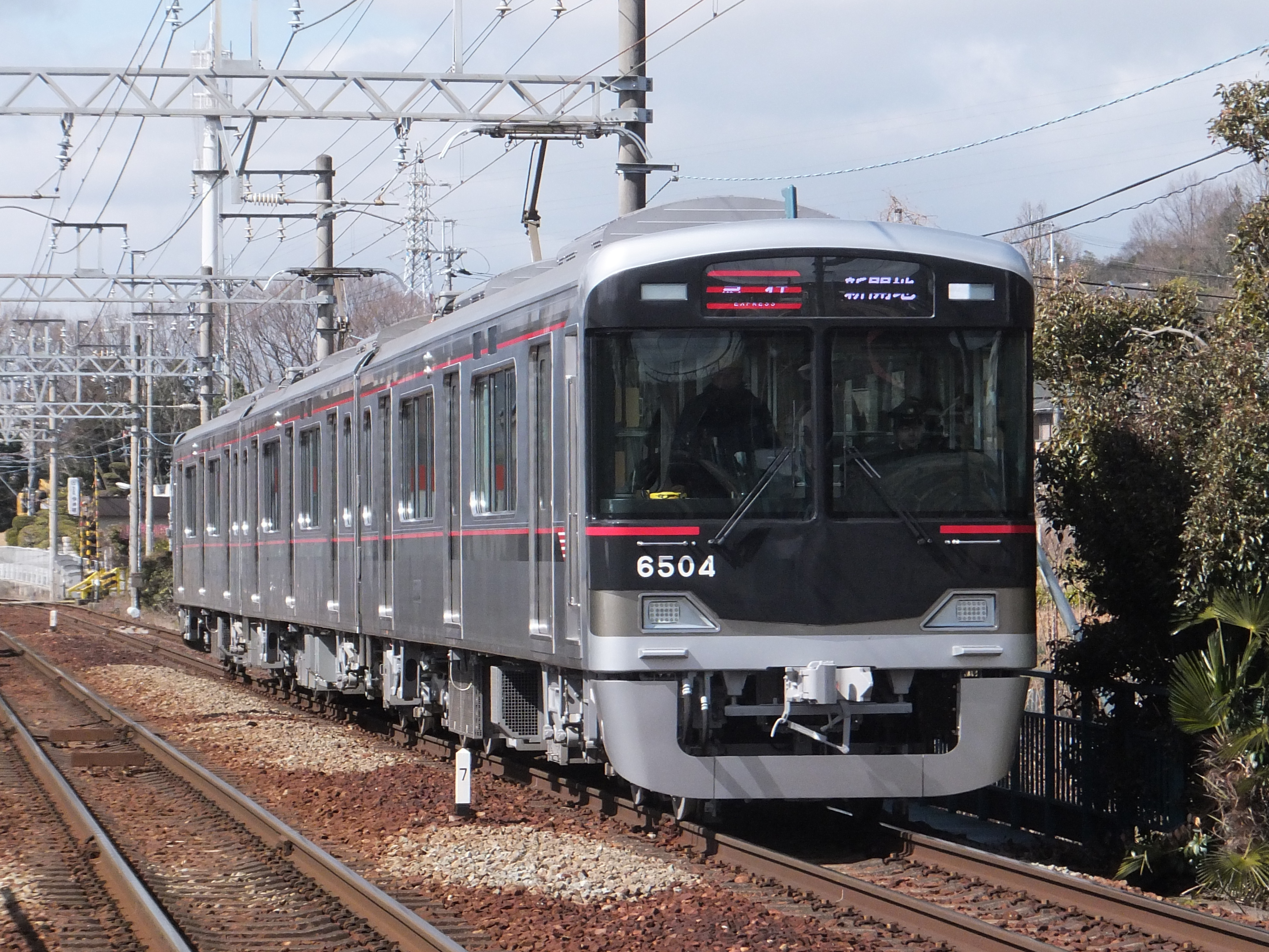 Shintetsu 6500 series 3-car EMU set 6503 near Sakae Station